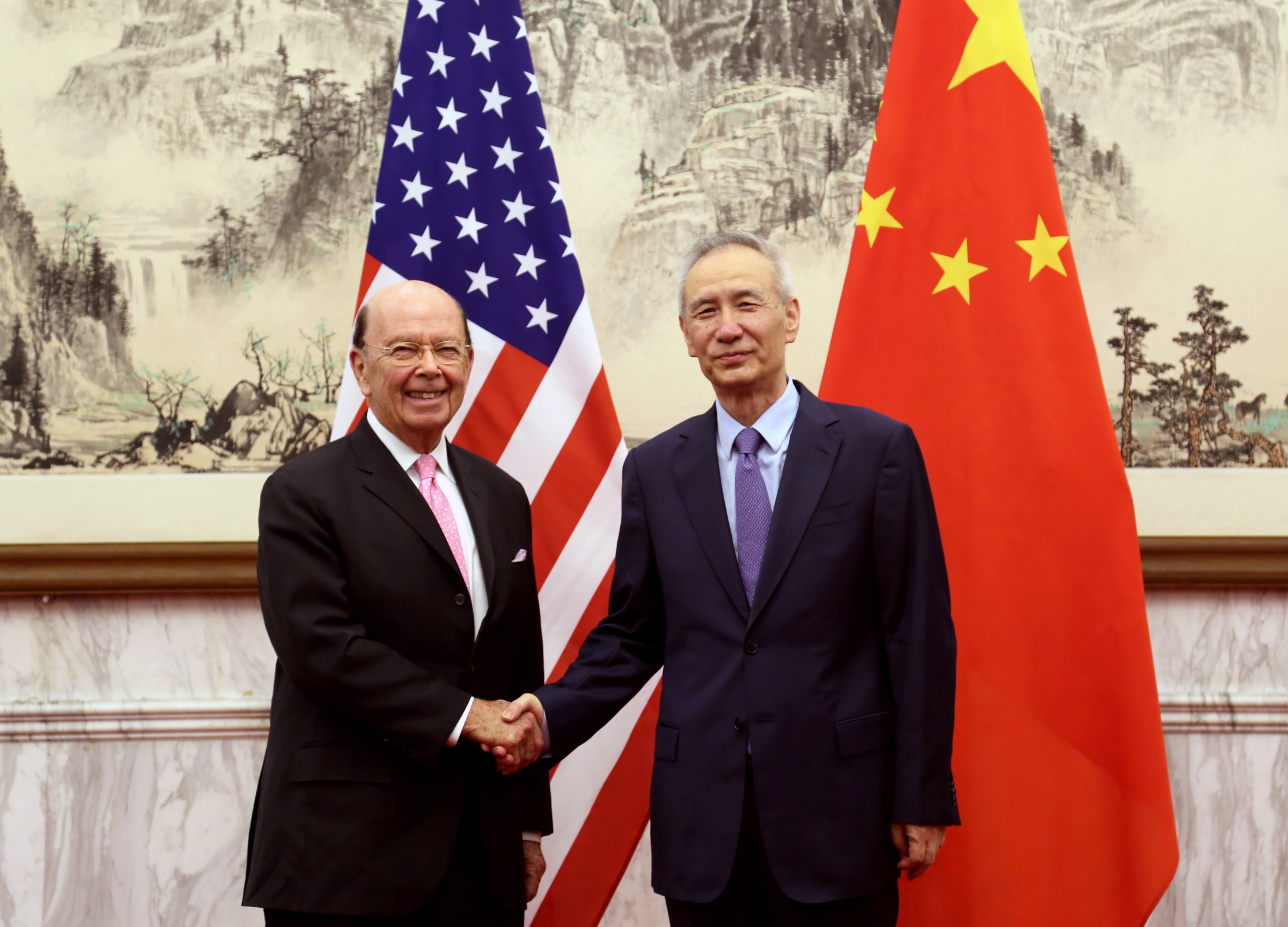 U.S. Commerce Secretary Wilbur Ross Greeted by Vice Premier Liu He in Beijing, 06/02/2018